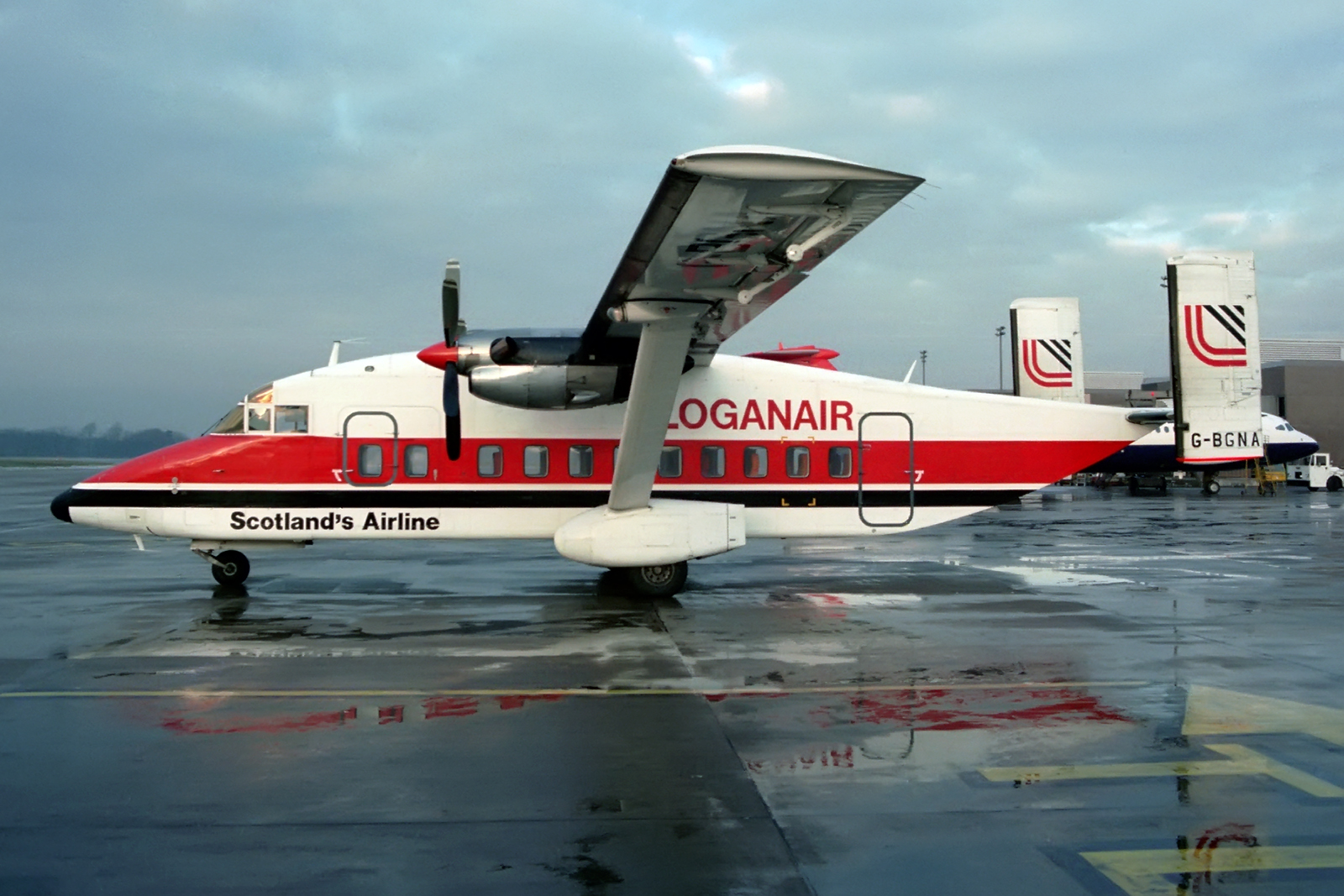 EDI 1982 - Short SD330 aka 'The Flying Portakabin'